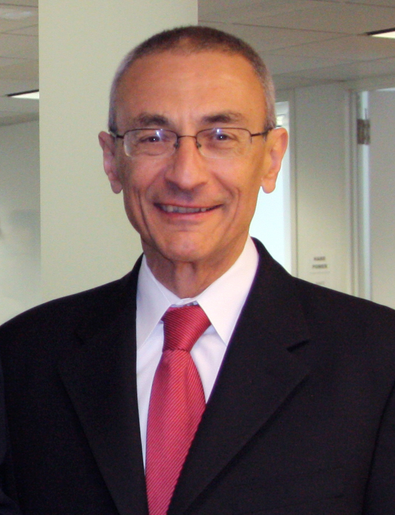 John Podesta in 2010.